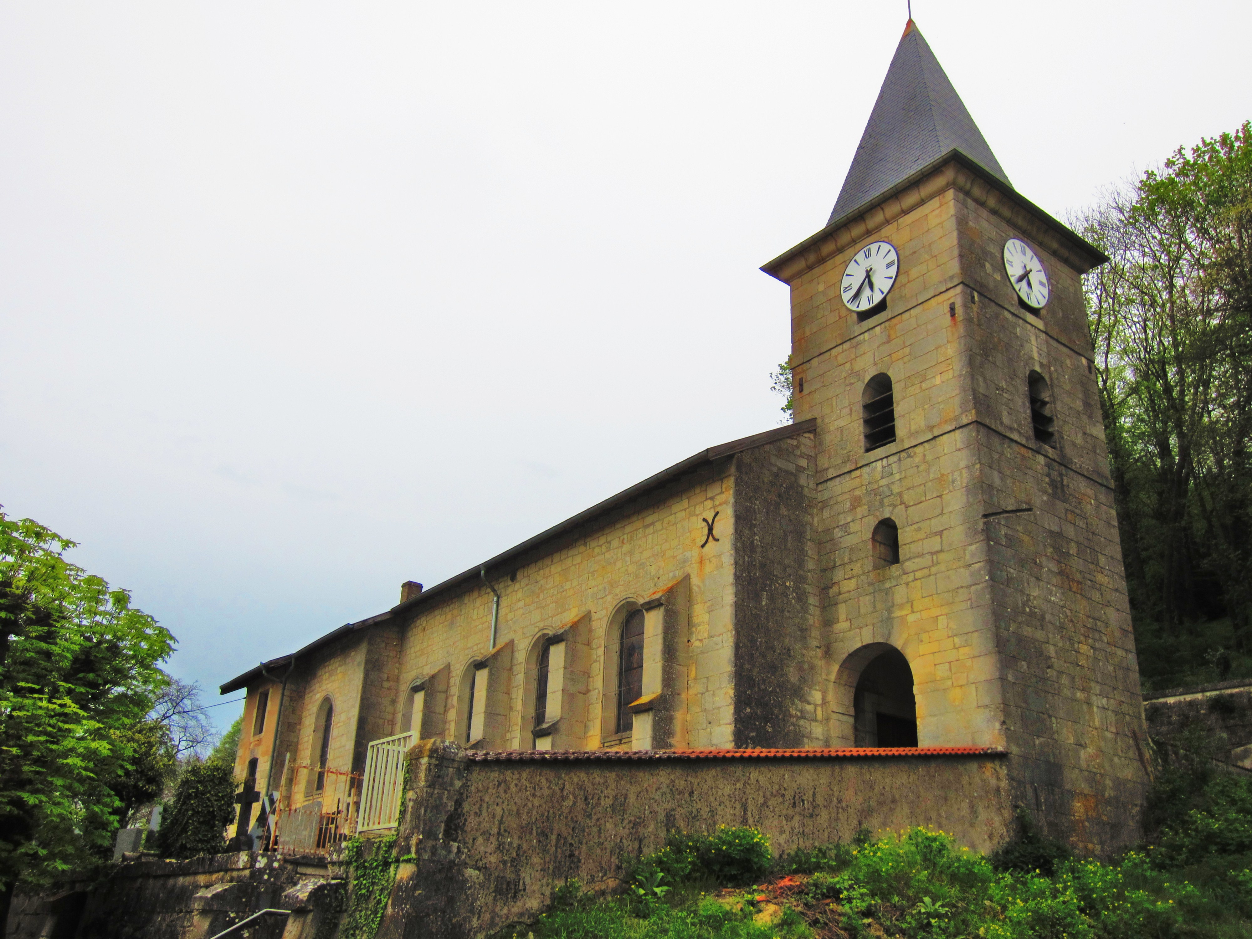 Varneville church